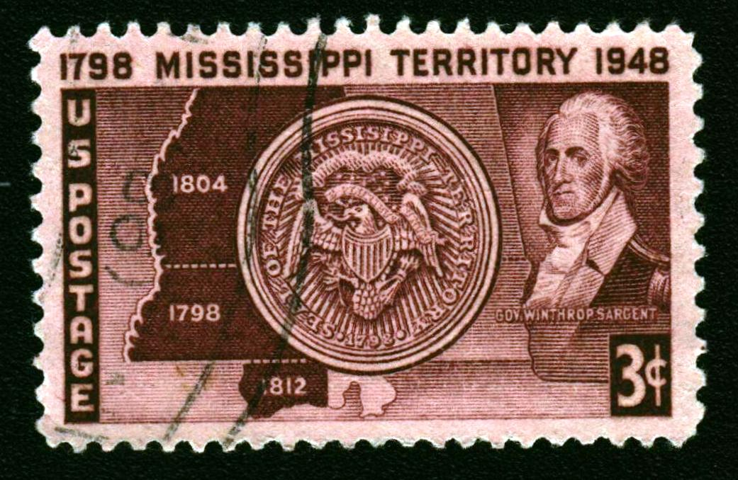 commerative stamp on the 150th anniversary of the establishment of the mississippi territory